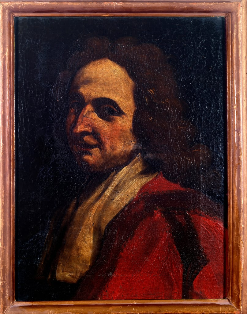 Portrait of Stefano Landi